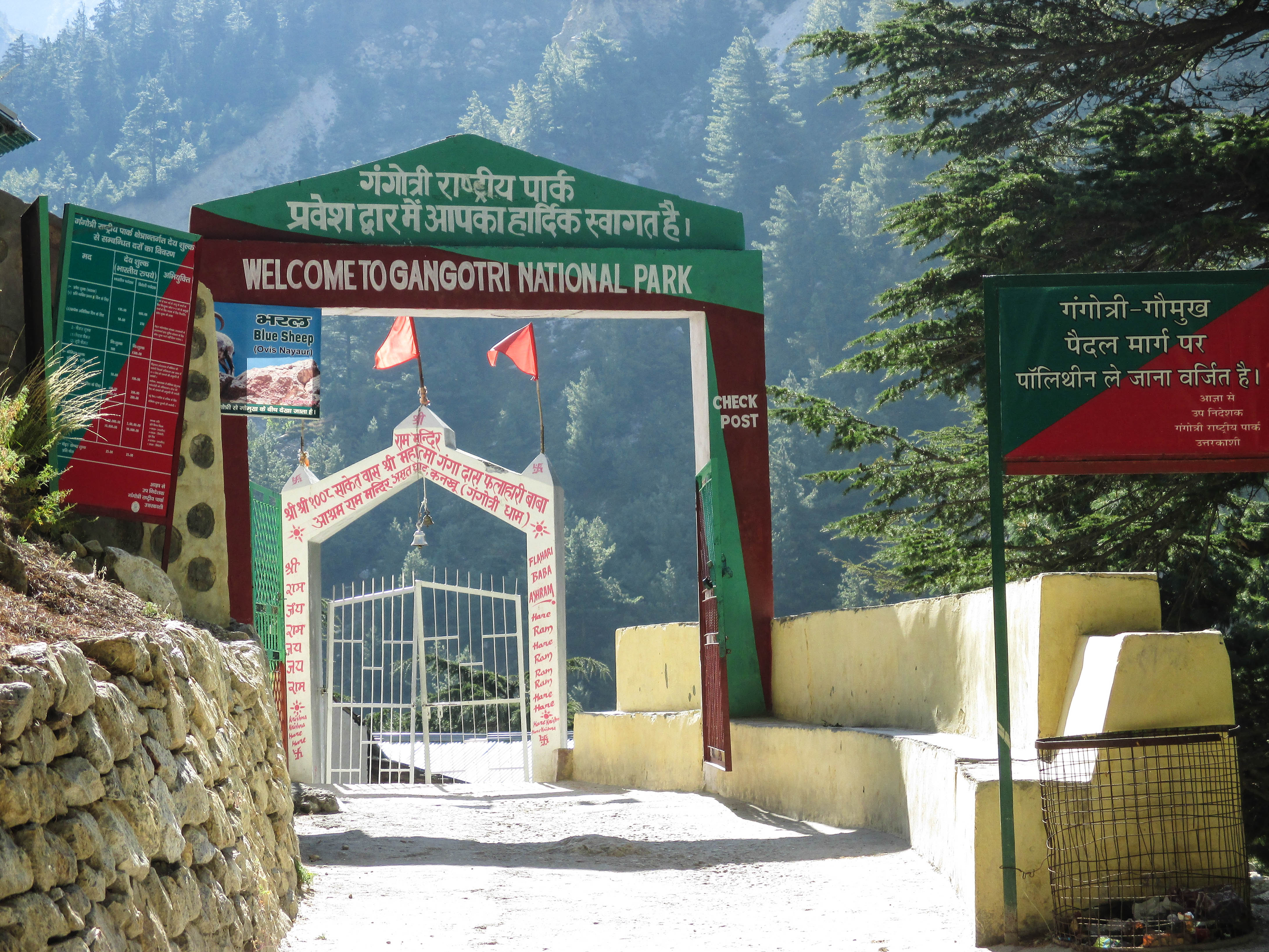 This picture of the entrance check post of Gangotri National Park was taken during Kalindi khal Trek.